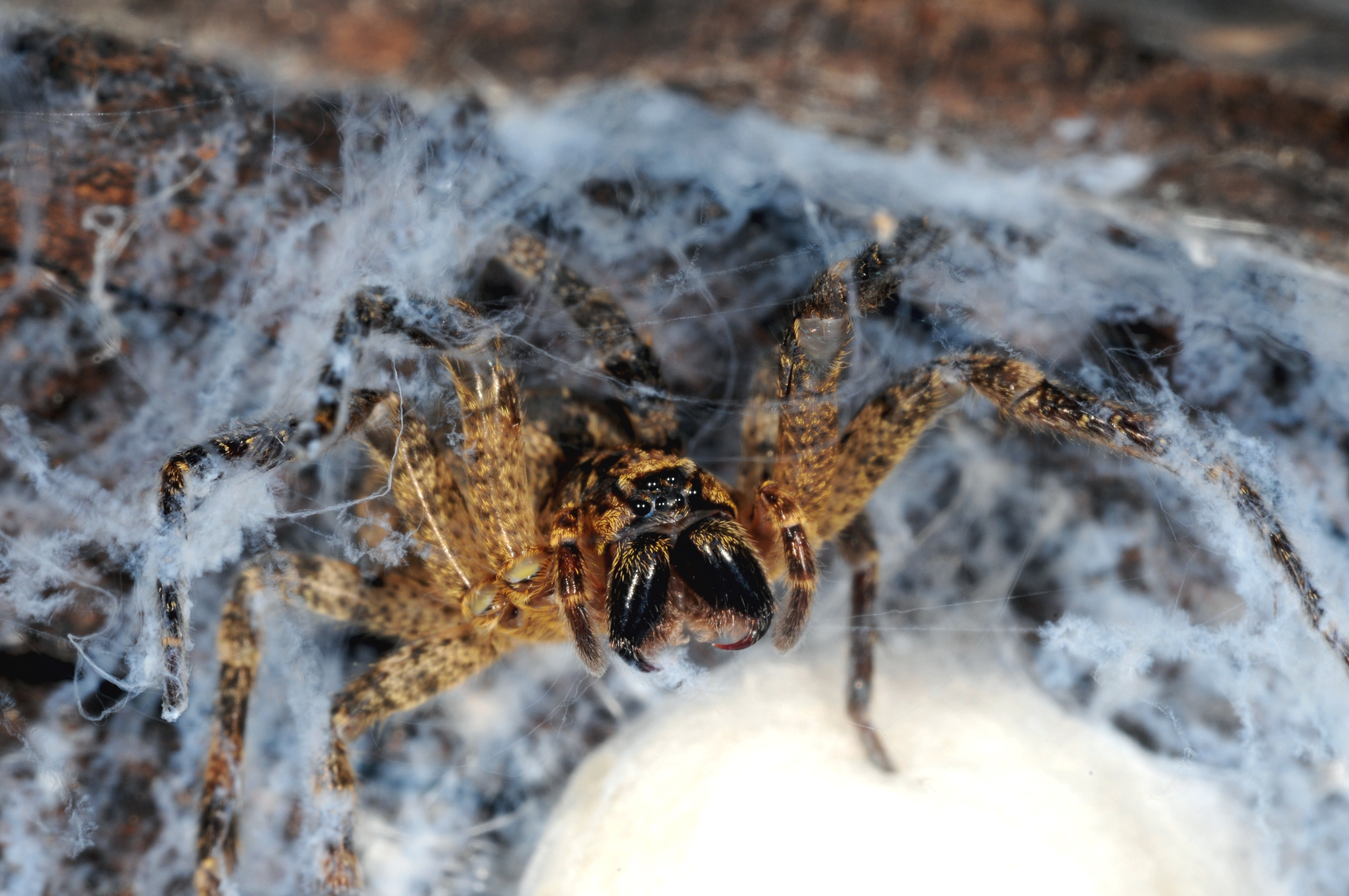 Zoropsis spinimana: Portugal, Setubal, forest, 2.4 km ese Alácer do Sal, 38,367°N -8,538°W